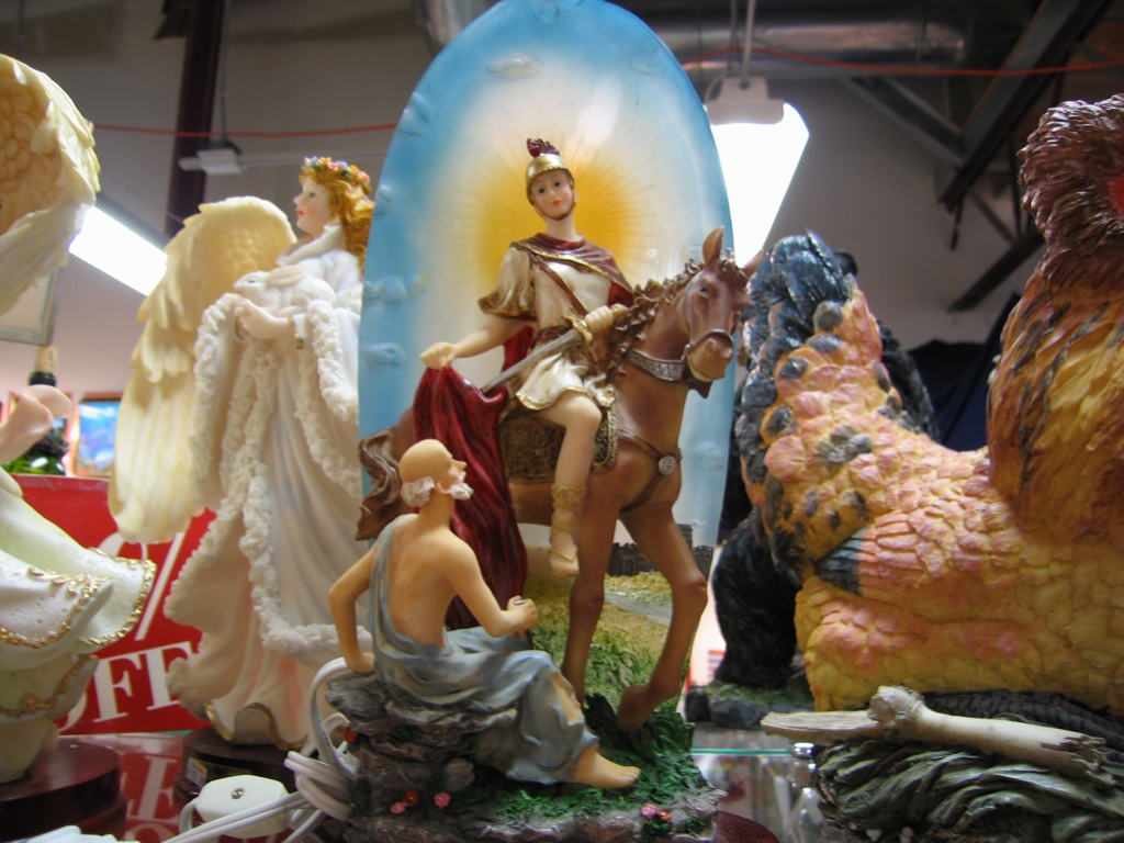 Some Biblical Scene Rendered in Plastic